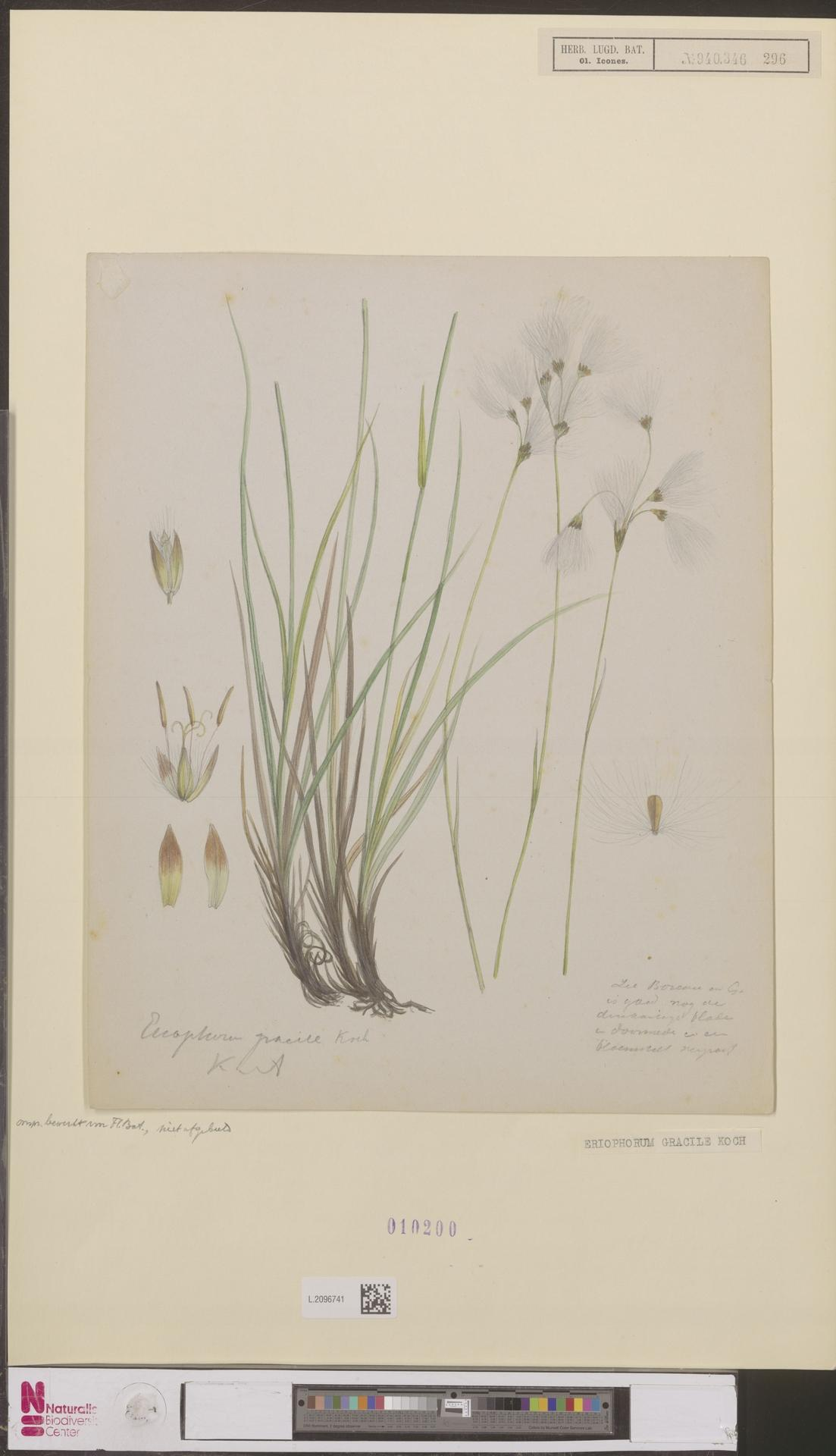 Eriophorum gracile Koch